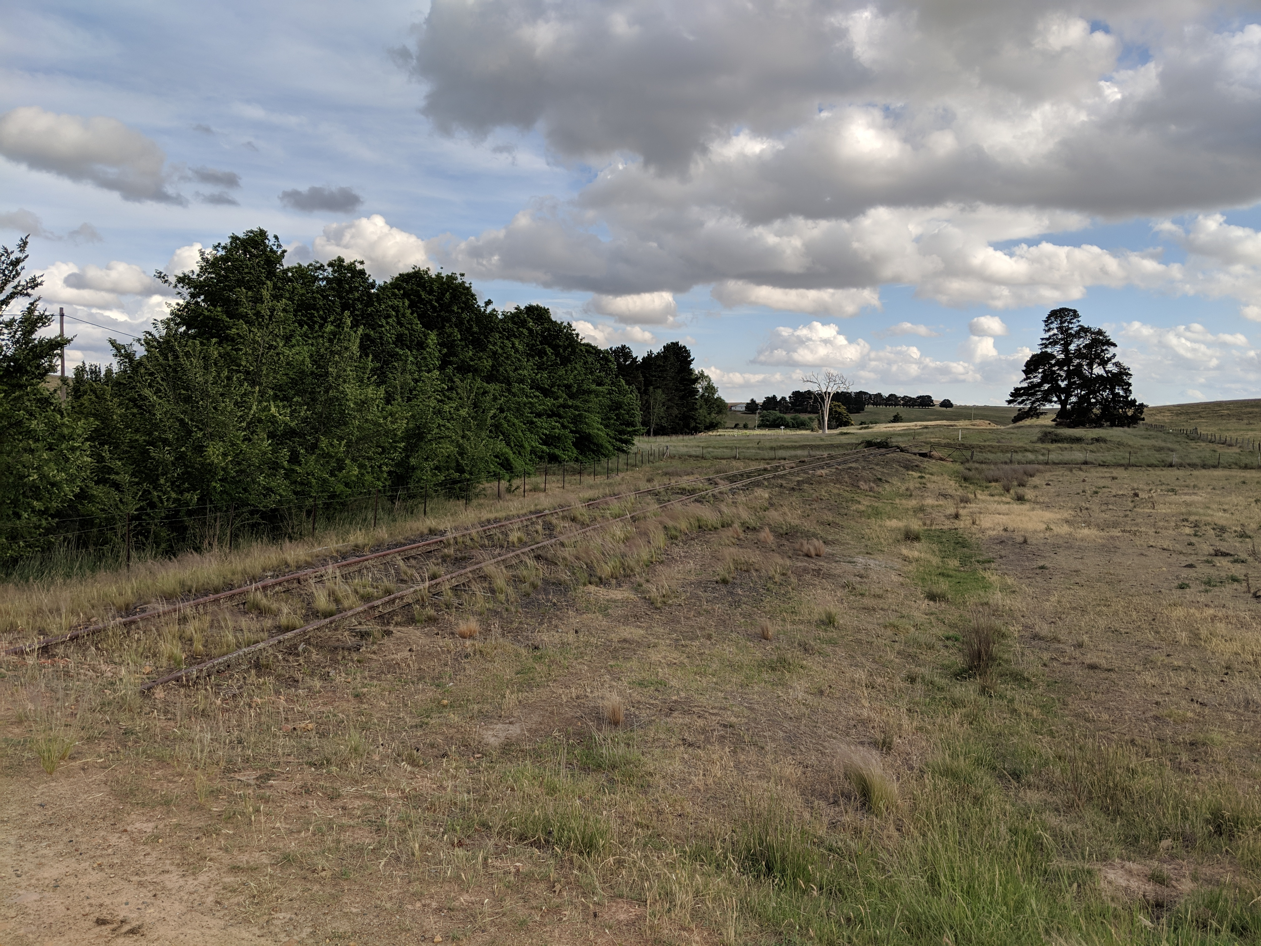 Abandoned railway in Woodhouselee, New South Wales